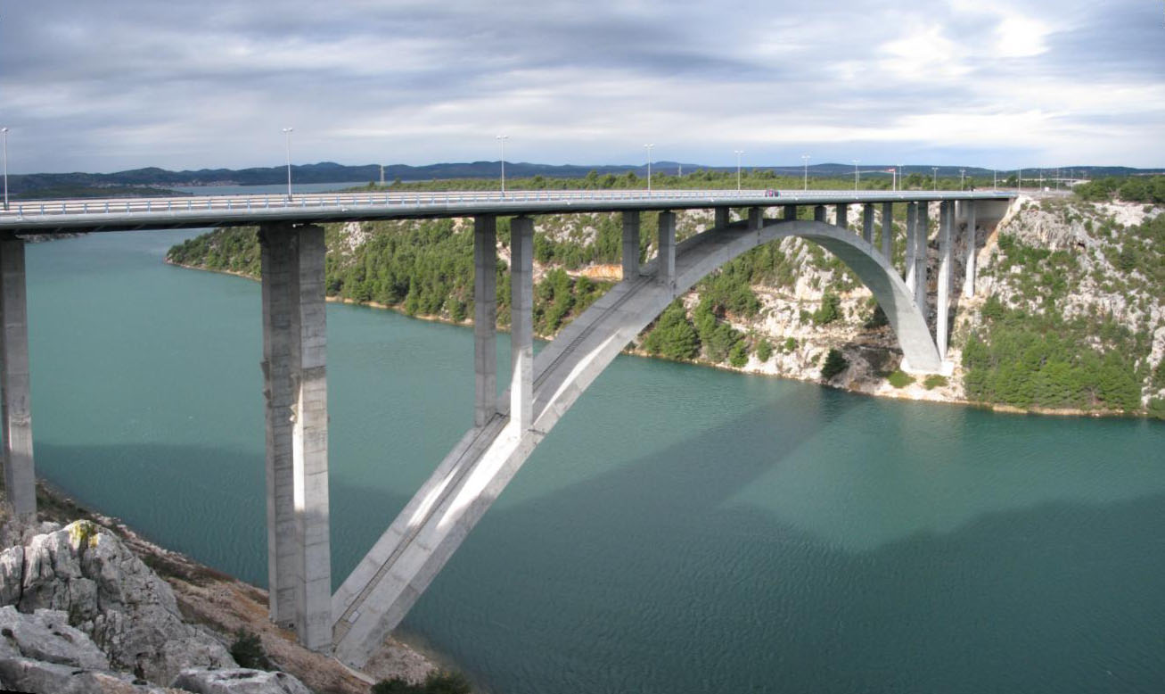 The Krka Bridge in southern Croatia carries the A1 Motorway over the Krka River.